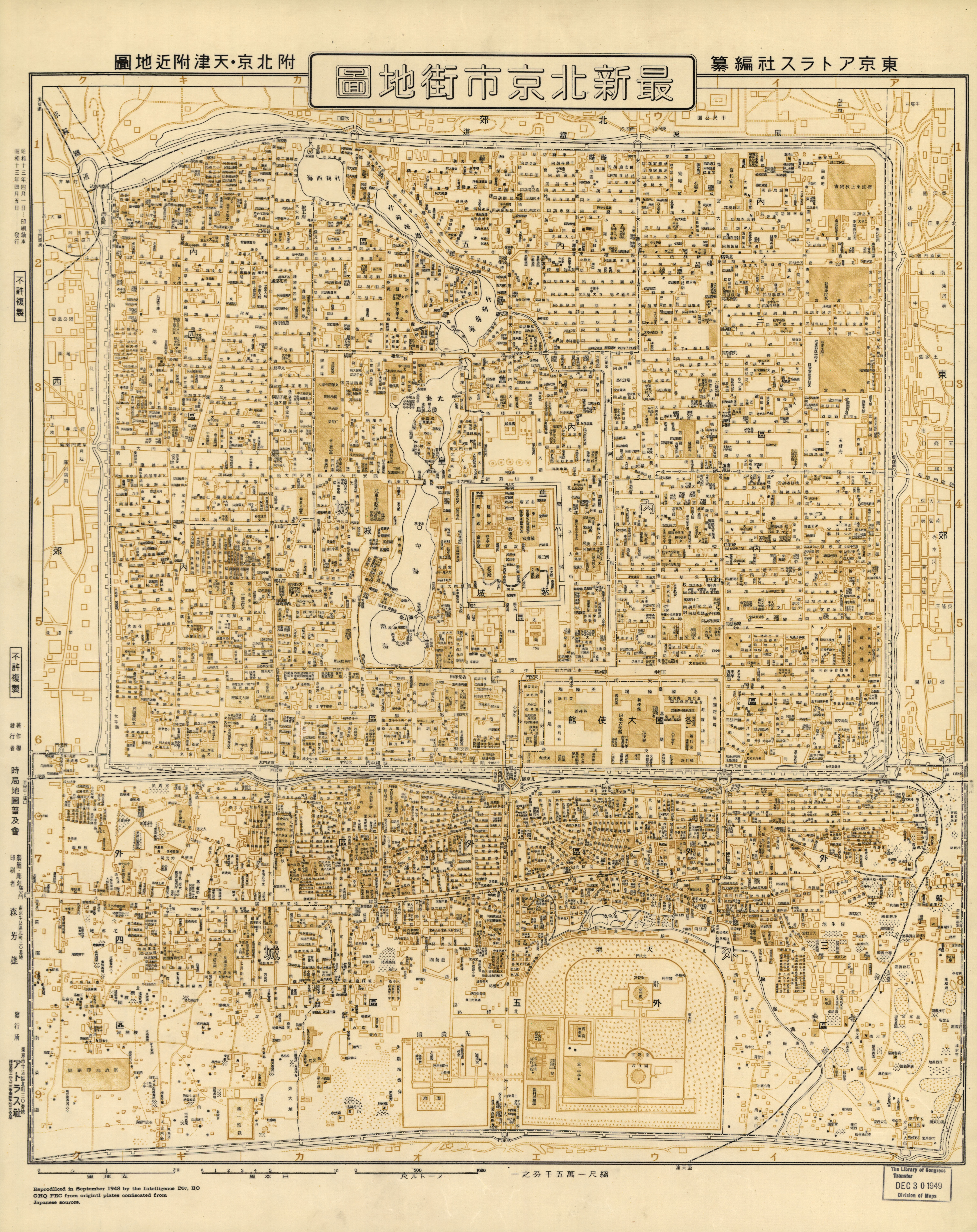 Saishin Pekin shigai chizu : tsuketari Pekin Tenshin fukin chizu / Tōkyō Atorasusha hensan. Scale 1:15,000.